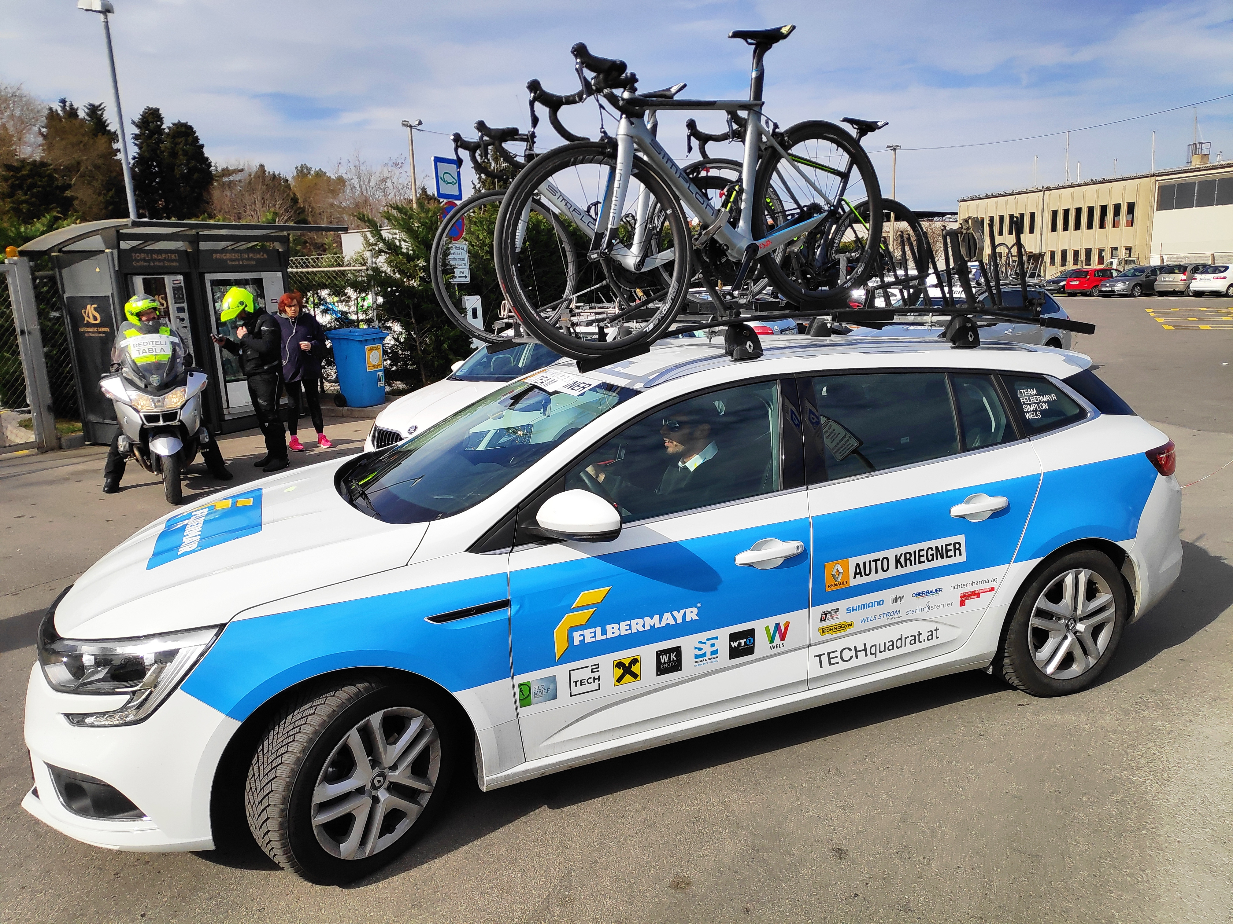 Team Felbermayr - Simplon Wels team car (2019 GP Izola)